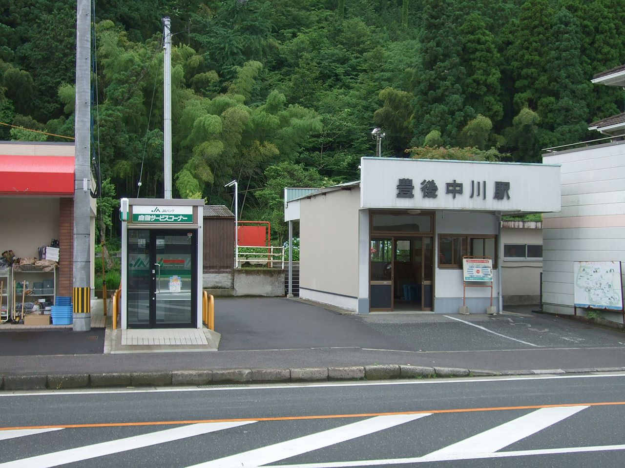 JR Kyushu Kyudai Line Bungo-Nakagawa Station, Hita City, Oita, Japan.